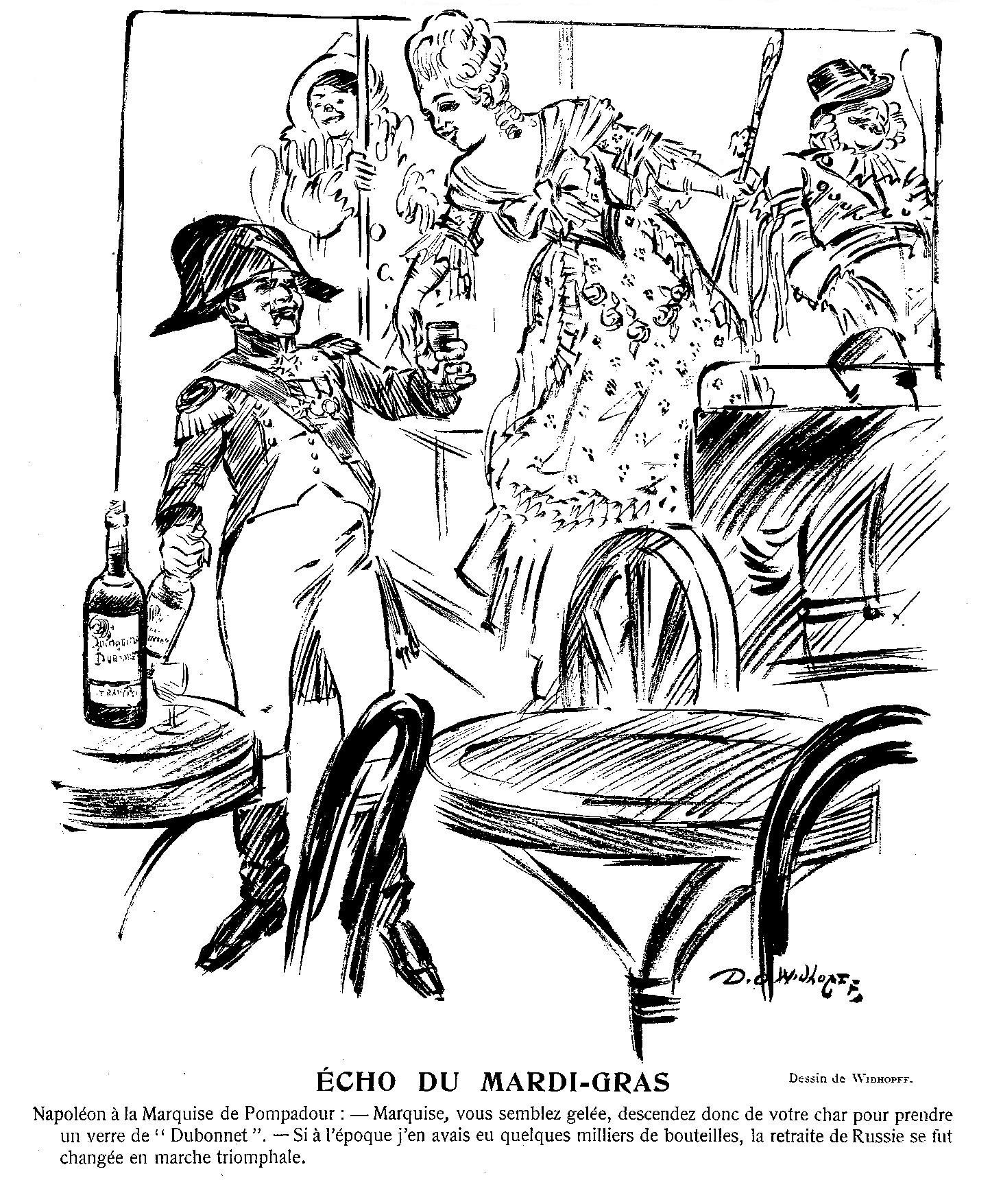 Idiomatic translation of the caption: "(Napoleon Bonaparte to Mme. the Marchioness de Pompadour): My dear Marchioness, you must be perished with the cold. Do, pray, alight from your carriage and take a glass of Dubonnet. If, at the time, I had but had a few thousand bottles my retreat from Russia would have been metamorphosed into a triumphal procession!"